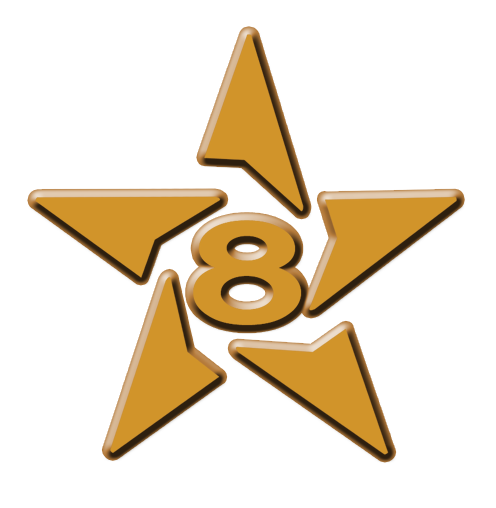 Special